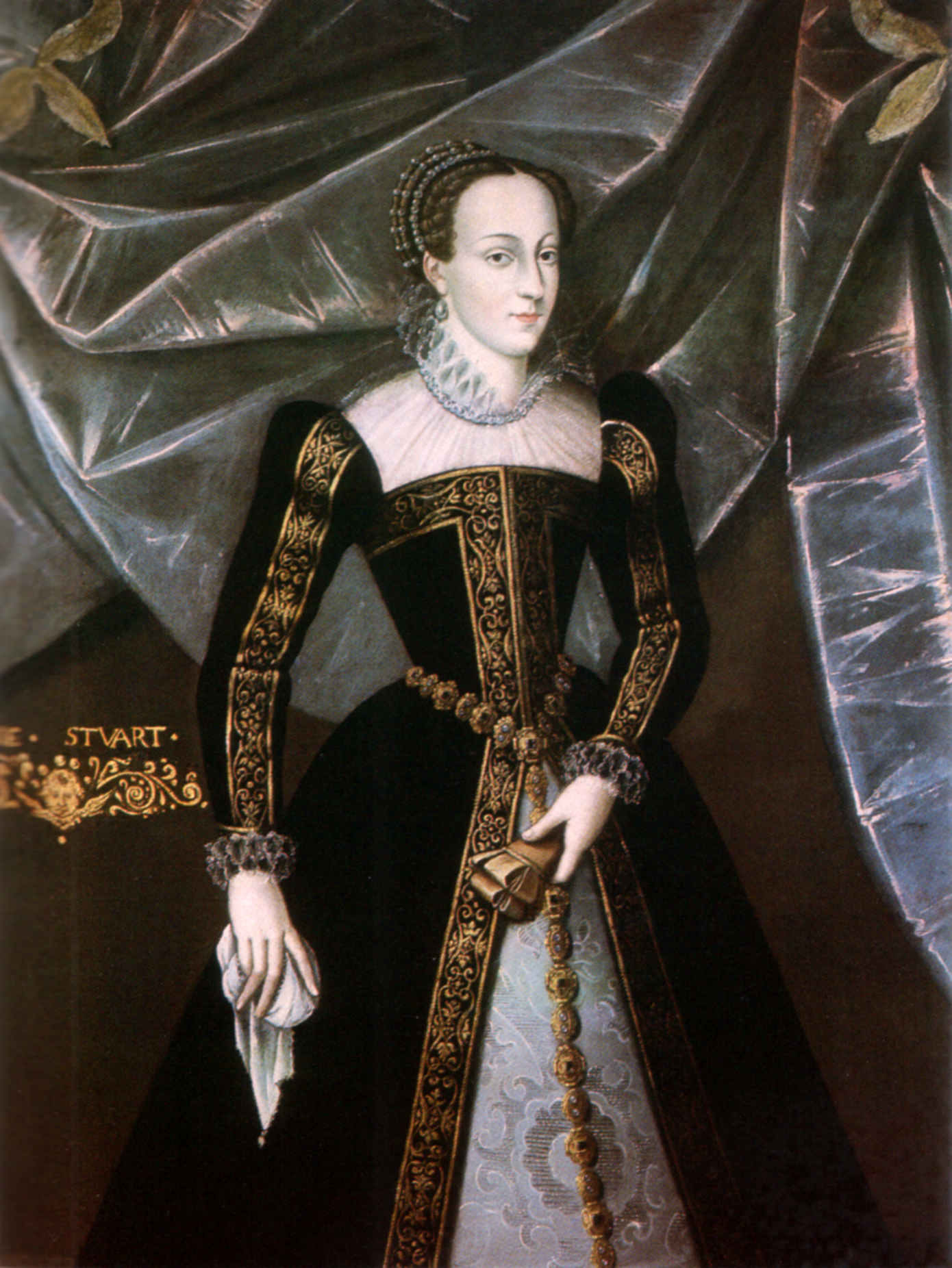 Mary Queen of Scots (1542-1587) in an official portrait.